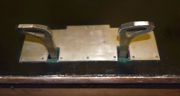 The angular Art Deco influenced frame is photographed here surrounding the piano pedals of the 'Pianette' model minipiano.